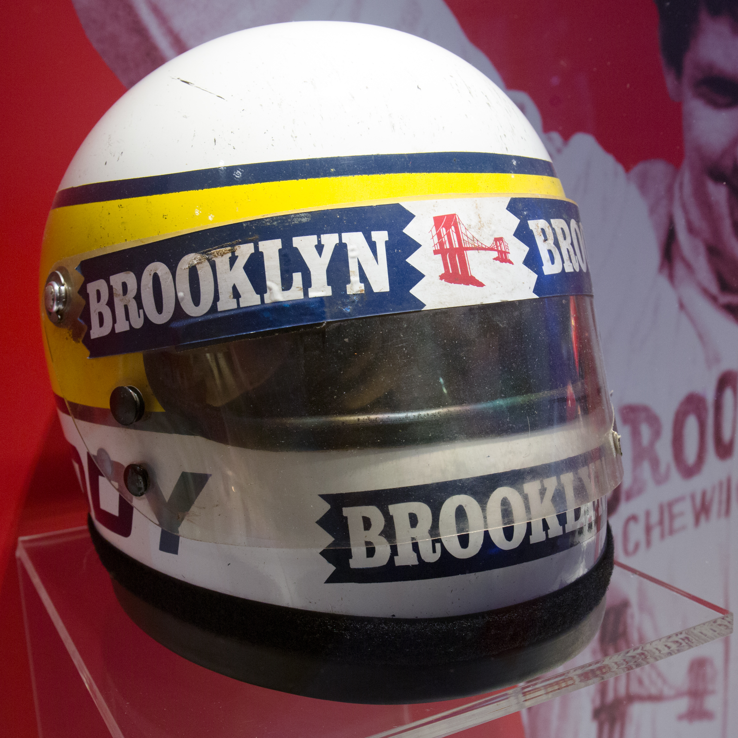 Museo Ferrari: Helmet of Jody Scheckter, in the 1970s.